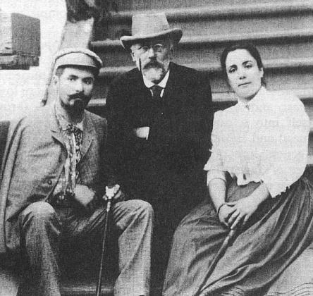 Russian composer Petr Tchaikovsky and opera singers Medeya and Nikolai Figner